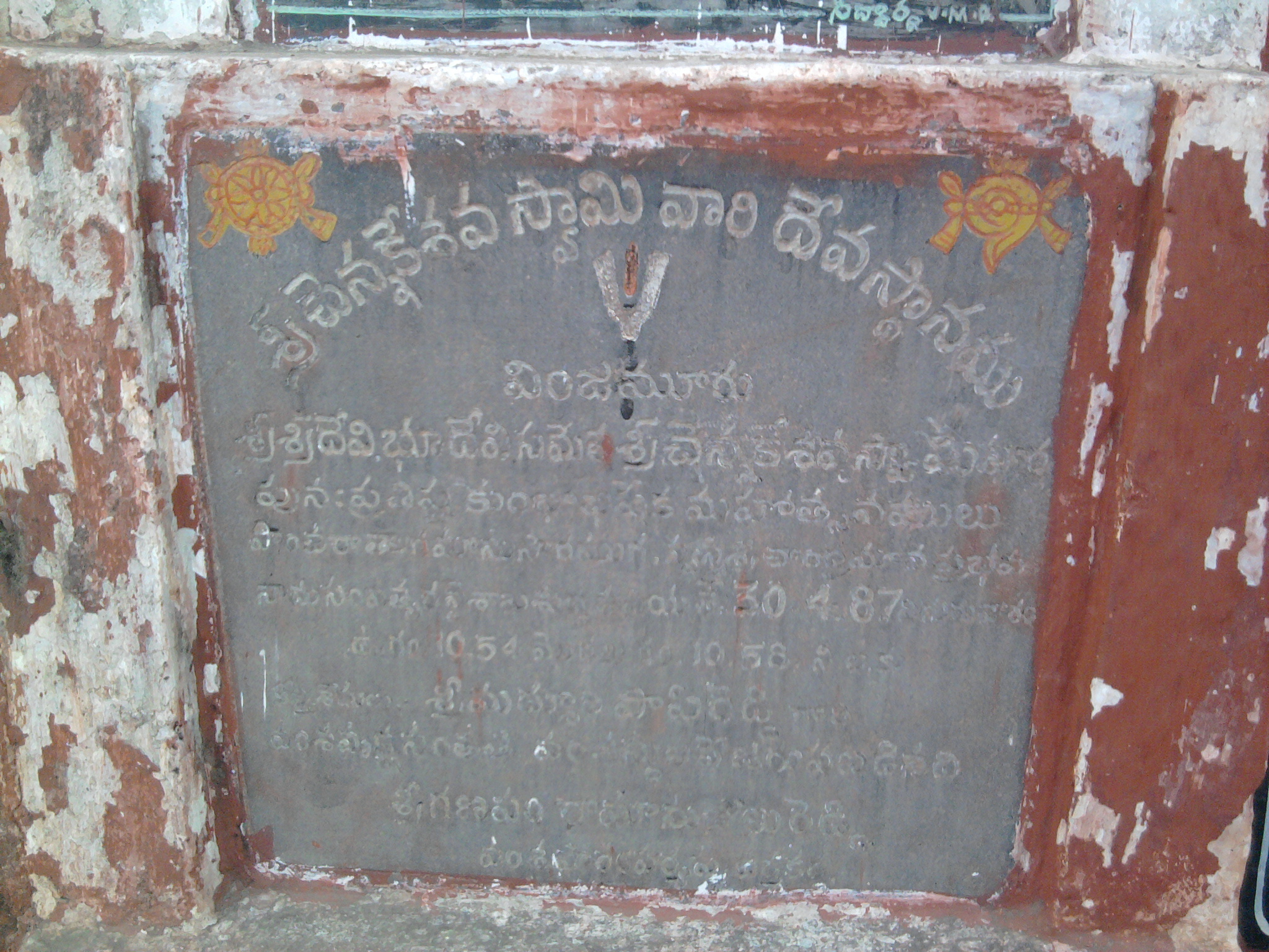 Sri Chennakesava Swami Temple, Vinjamur